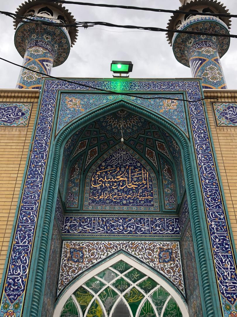 Al-Husseini Mosque, Abadan. The mosque and Hussainiya, founded by Sheikh Kadhim al-Hajari in 1934